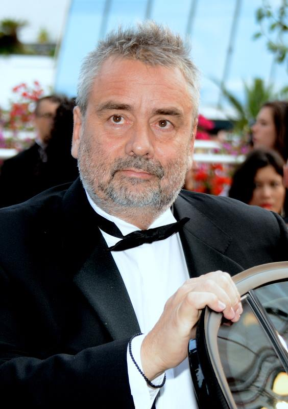 Luc Besson at the Cannes Film Festival